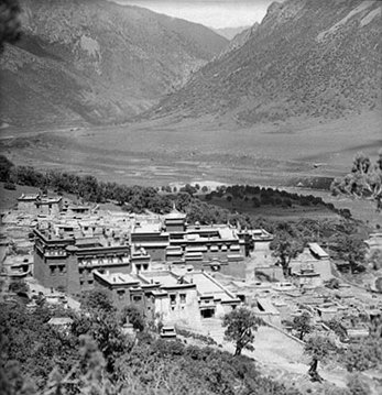 Reting (rwa sgreng) monastery in the stoney valley of the Reting rongchu (rwa sgreng rong chu) river seen from above. The main temple and assembly hall are in the centre of the complex topped by a gilded roof.